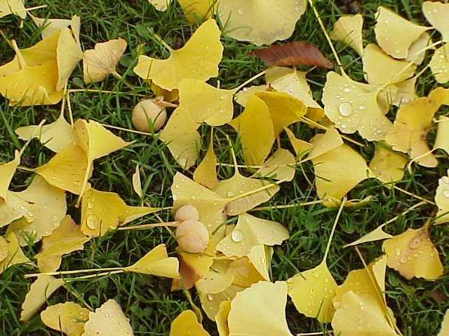 Species: Gingko biloba Family: ' Image No. 5